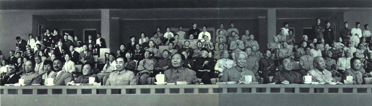 1965-12 1965年全运会3